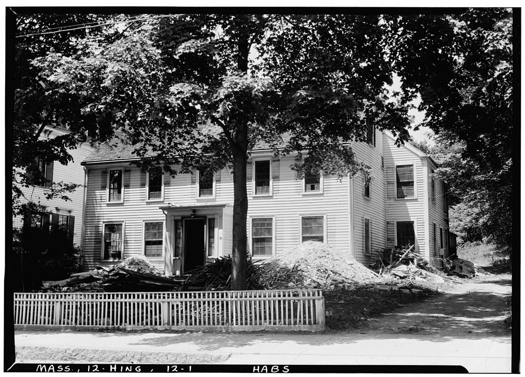 Photograph of the Perez Lincoln House, 123 North Street (moved from original location), Hingham, Plymouth County, Massachusetts. Historic American Buildings Survey, Library of Congress, Washington, D.C. The house was originally built by Joseph Andrews, Hingham's first constable and first town clerk, likely in 1640. Although now clapboarded, the house was originally of timber frame construction and was Hingham's first garrison house. It boasted massive timbers and thick log walls and was used by early settlers as a gathering spot when an alarm went out over Native American attacks. The house is likely the oldest home in Hingham, and the oldest authenticated garrison house. Joseph Andrews sold the house for a nominal fee to his son Capt. Thomas Andrews, and the home became known as the Andrews House. Following Andrews's death, the home passed into the Lincoln family, in which it was conveyed for 225 years by simple inheritance or will from one owner to another. Nine generations of the Lincoln family occupied the home.